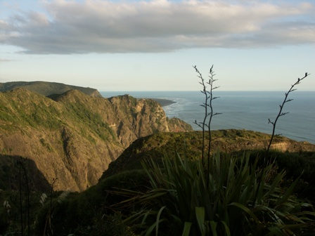 Karekare - photo taken and uploaded by Paul Moss, Photographer, Artist, Paul Moss Photographer Artist NZ